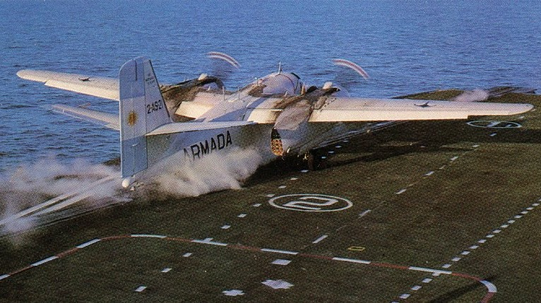 Grumman Tracker S-2E being catapulted from ARA 25 de Mayo.